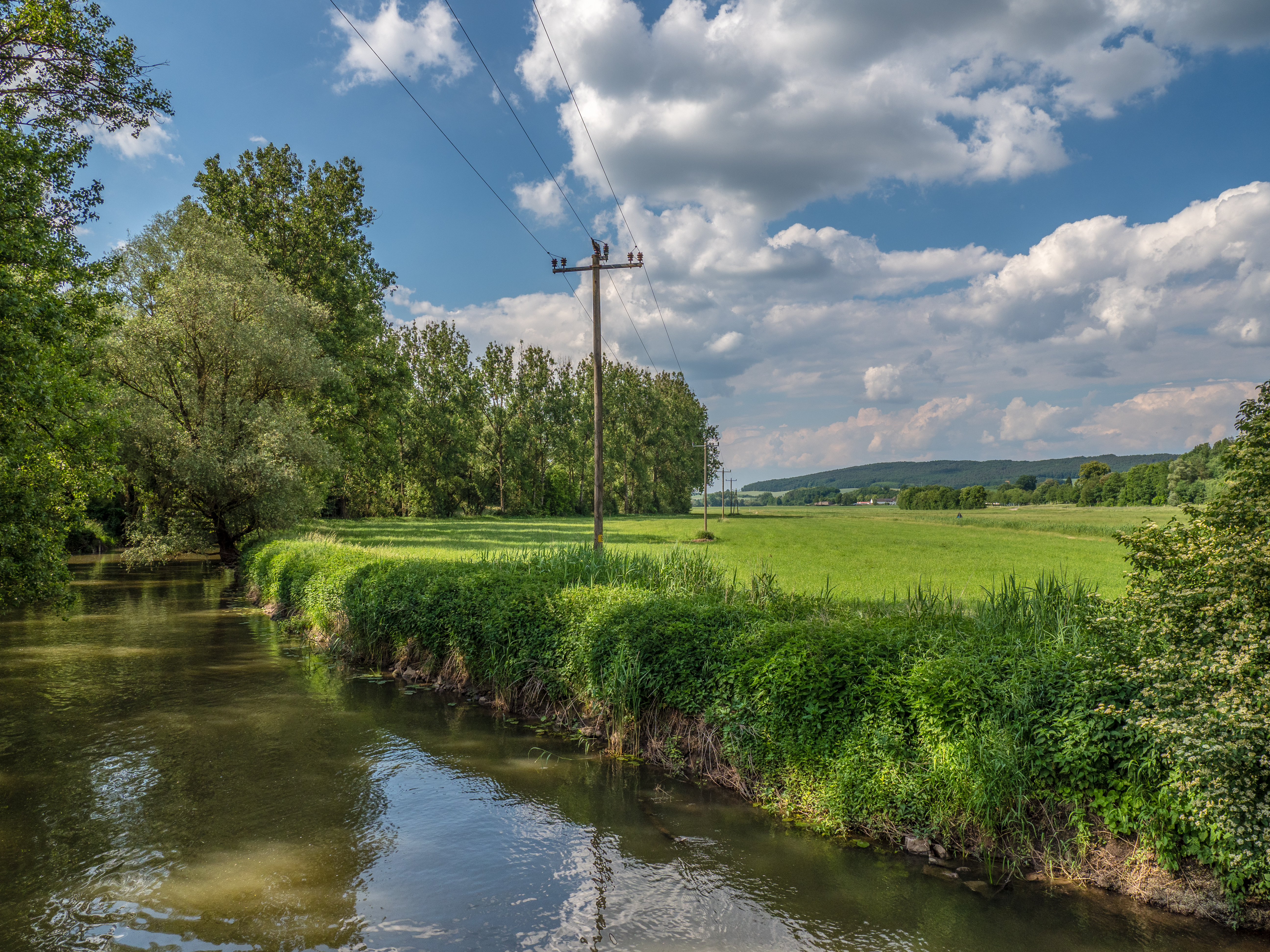 The Itz near the village Freudeneck